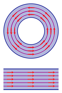 Necessary conditions for Brouwer's fix point theorem